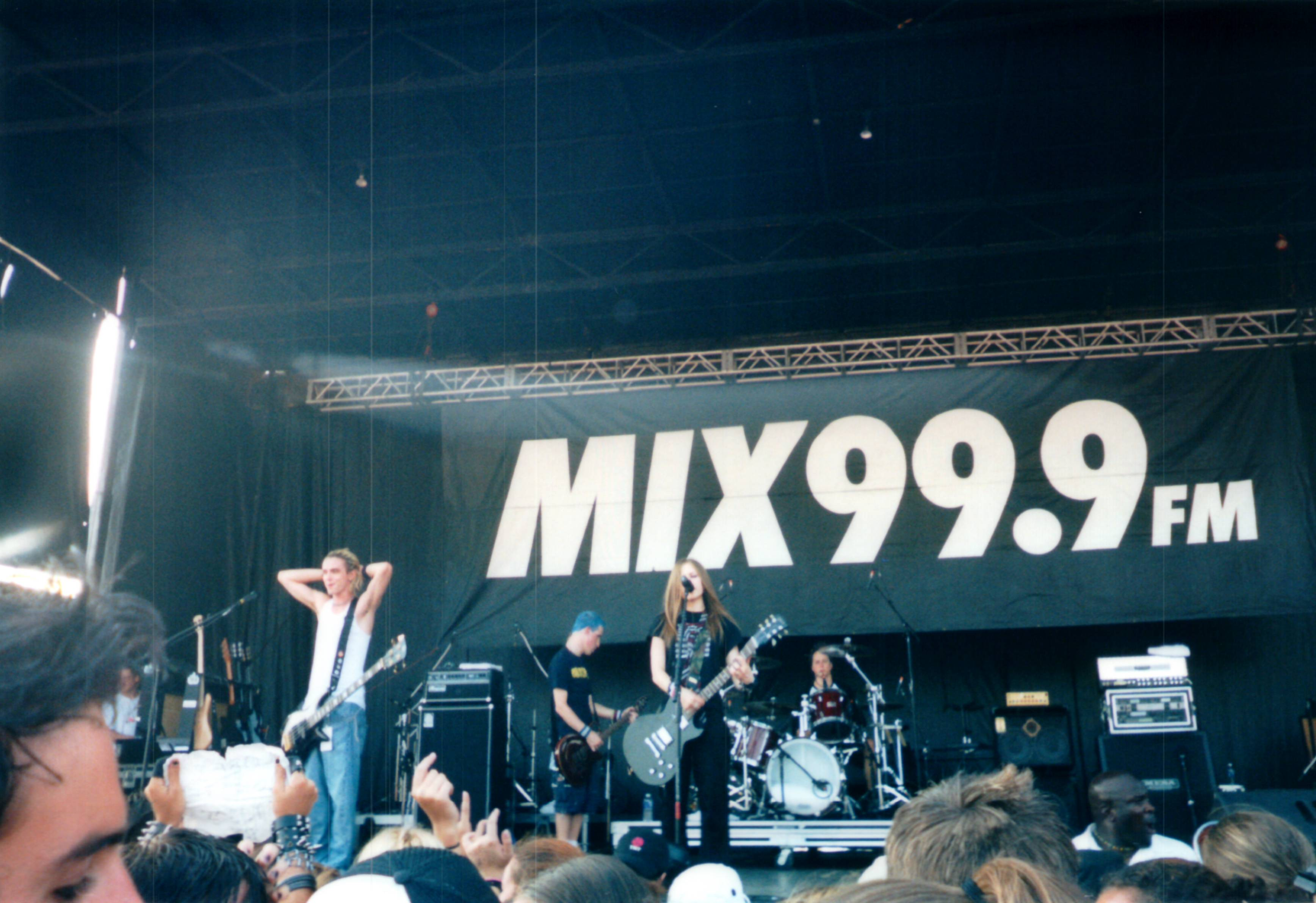 Avril Lavigne performing in Toronto, Canada in 2002